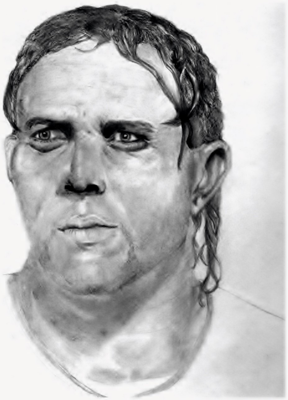 Drawing of Carlos Pavon